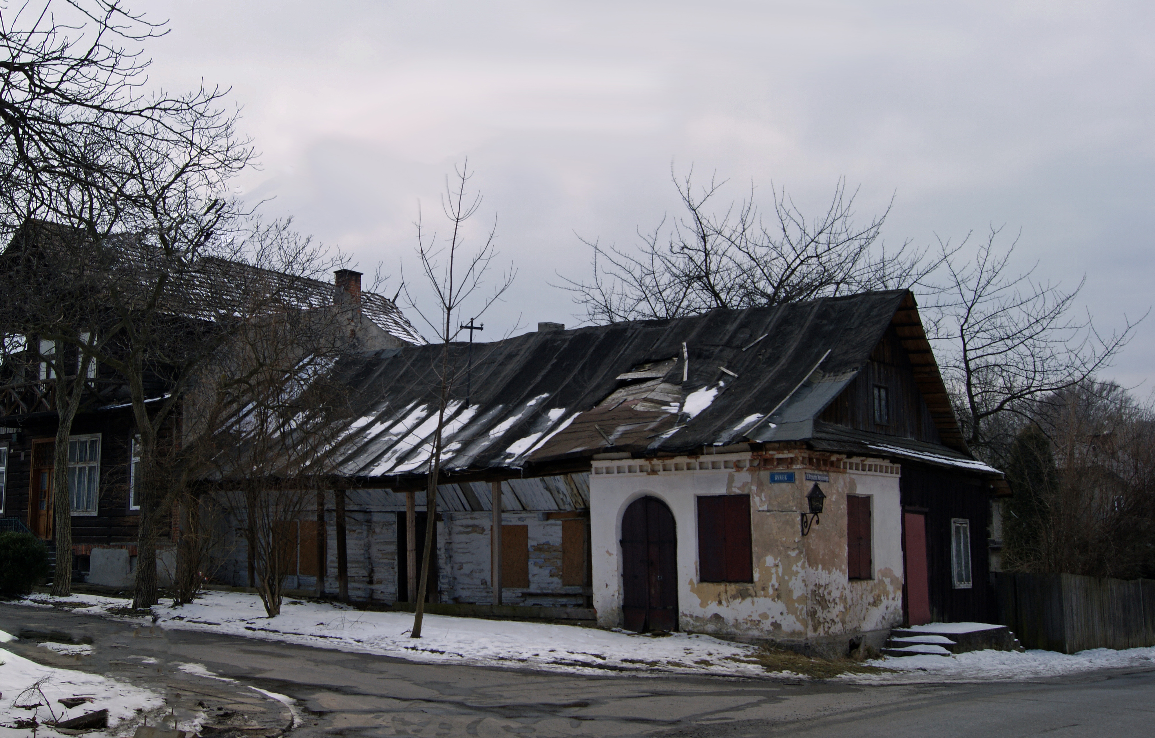 Old House, 24 Rynek (Market Square), City of Alwernia, Chrzanów County, Lesser Poland Voivodeship, Poland